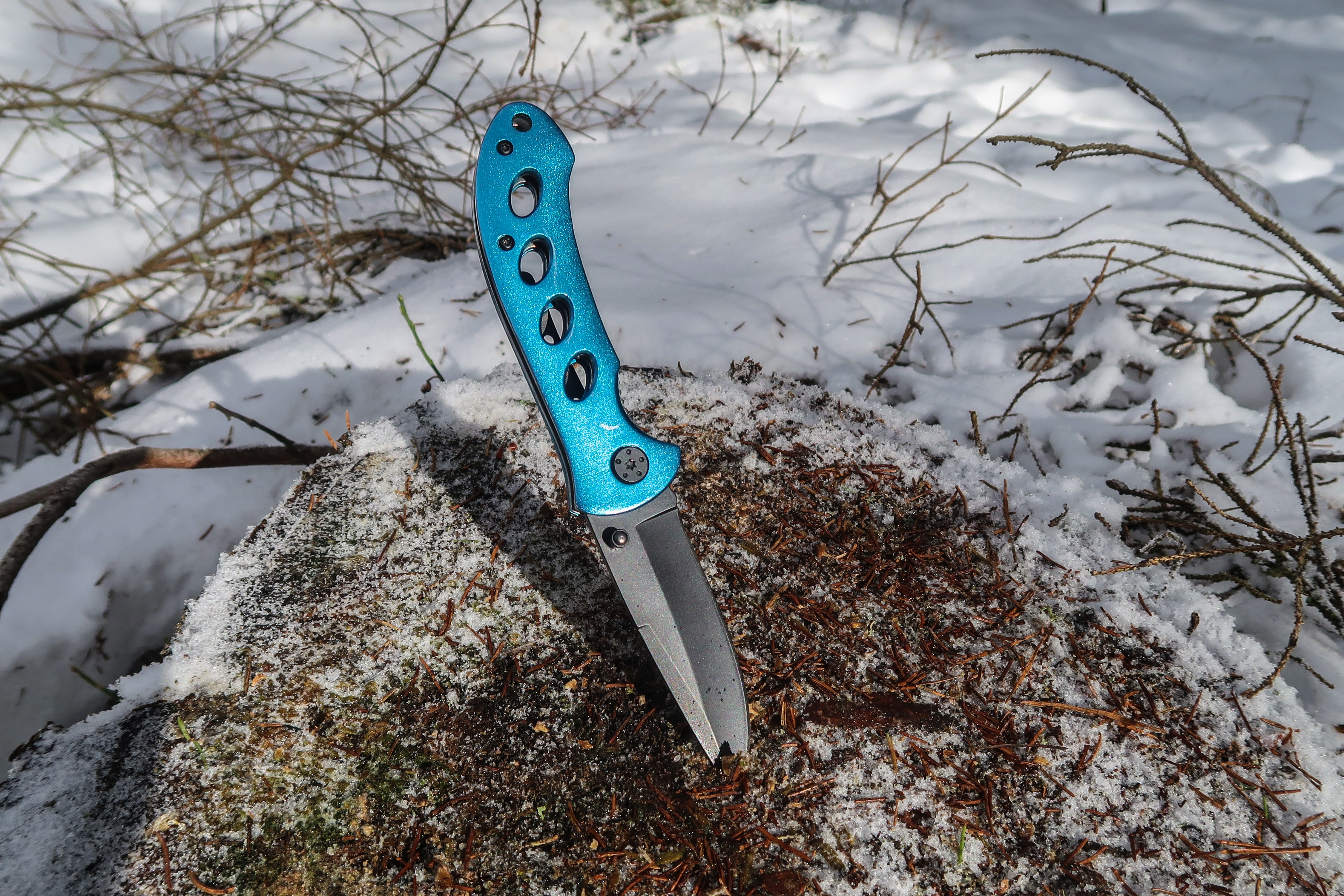 Pocketknife with stainless steel blade and aluminium handle (Clas Ohlson, Sweden).